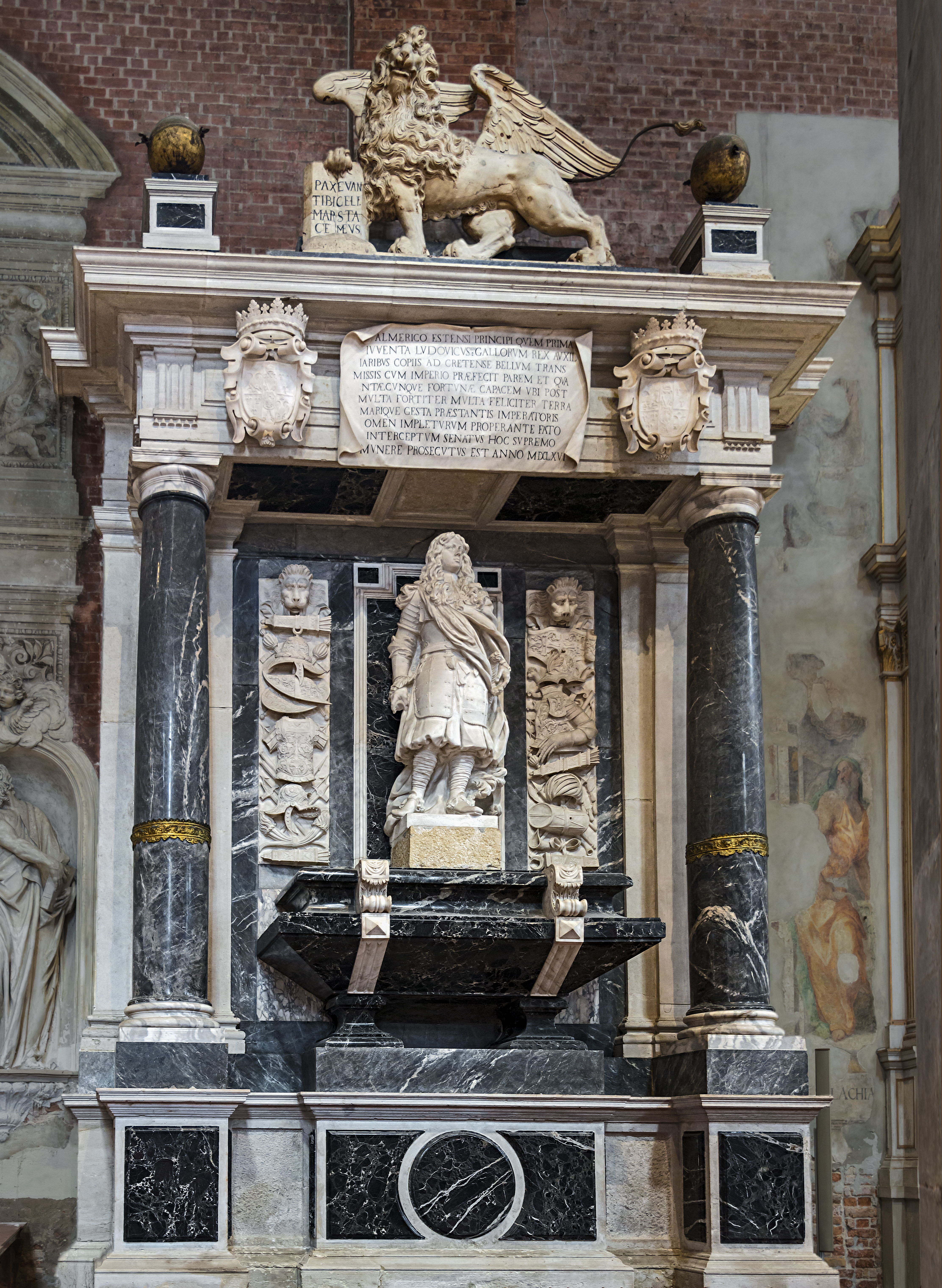 The Basilica di Santa Maria Gloriosa dei Frari. Monument to Prince Almerico d'Este of Modena (1666). The monument is located on the right side of the nave at the fourth altar: Altar of St. Joseph of Cupertino. It is made of marble and gilded. It is attributed to Baldassarre Longhena and Josse de Corte. Almerico d'Este commanded the Venetian army during the war of Candia (1645-1669) and died during his command. He was honored with a state funeral in the church of the Frari. The tomb was achieved at the expense of the Venetian Senate.